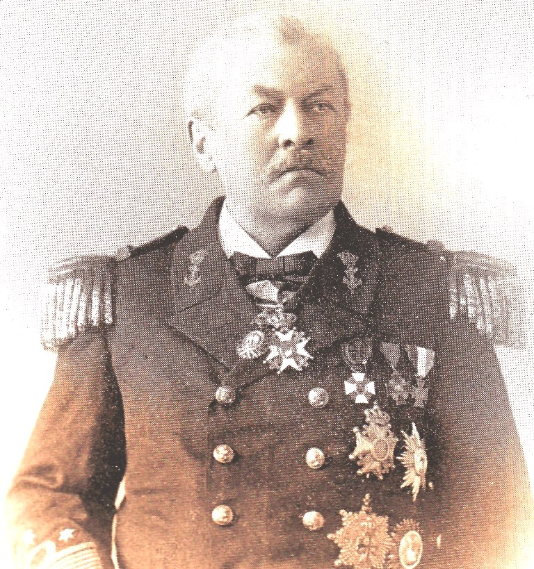 G. Kruys